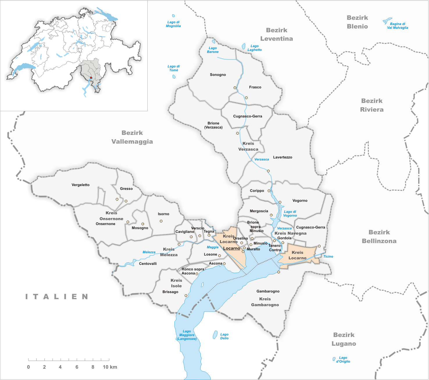 Municipality Locarno Artist: Tschubby